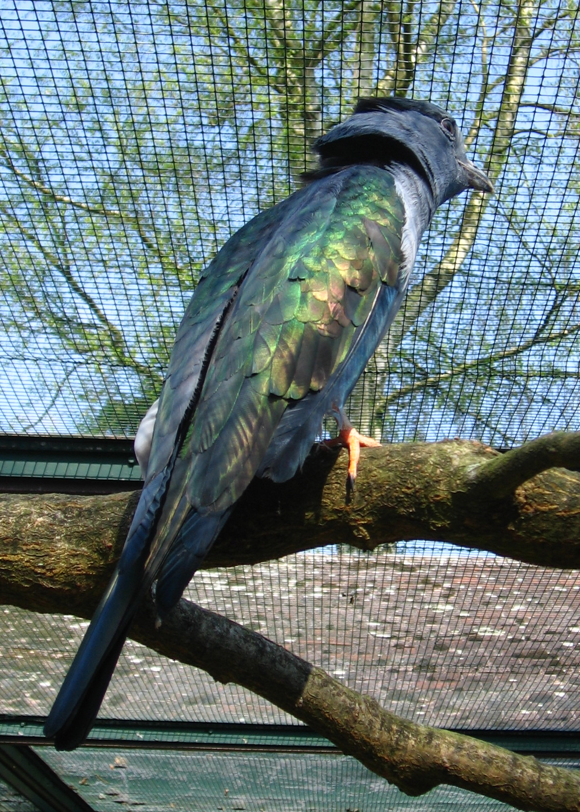 male Cuckoo Roller (Leptosomus discolor) at the Vogelpark Walsrode